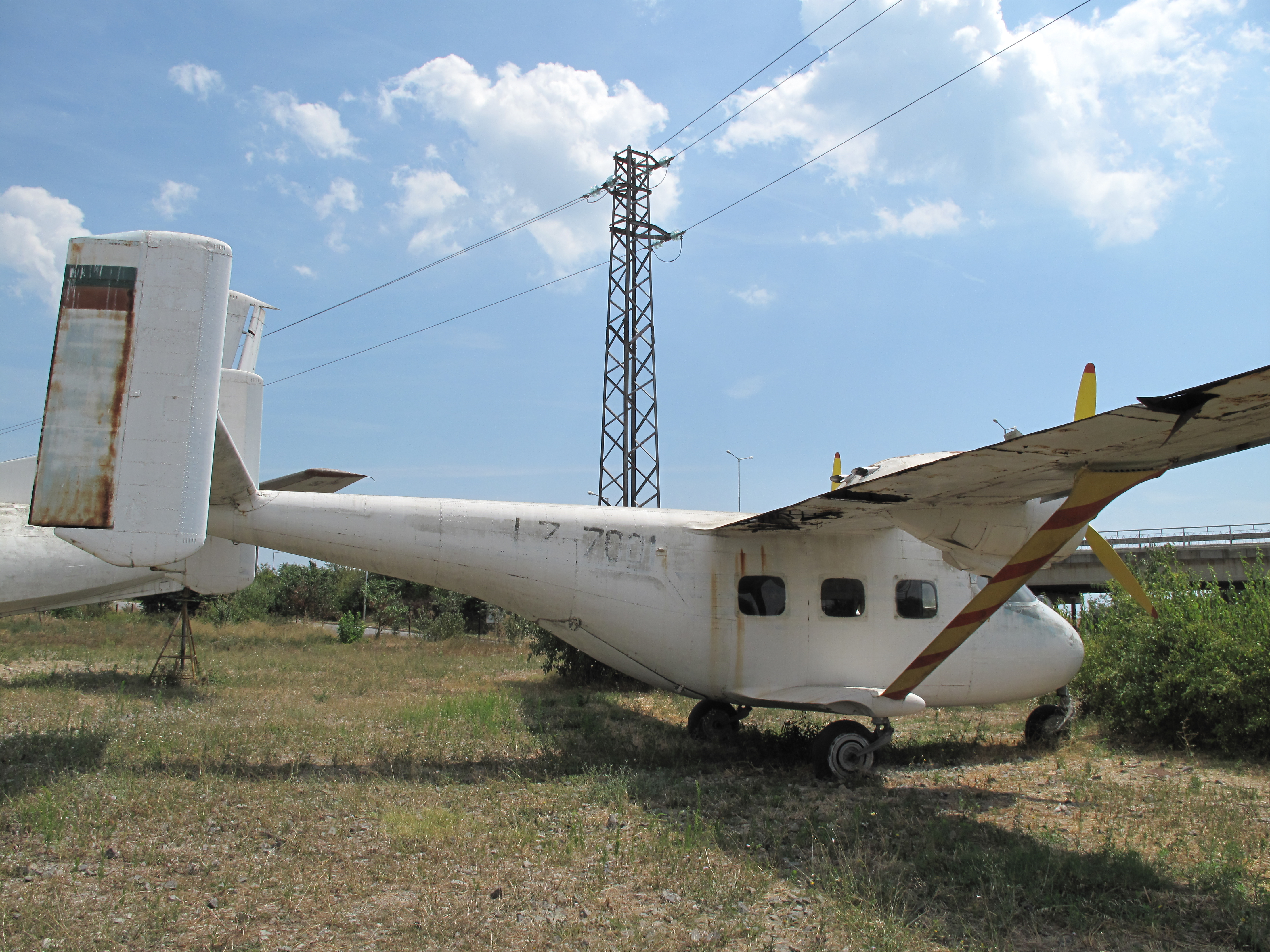 An -14 part of Burgas air museum collection. Located at Burgas international airport